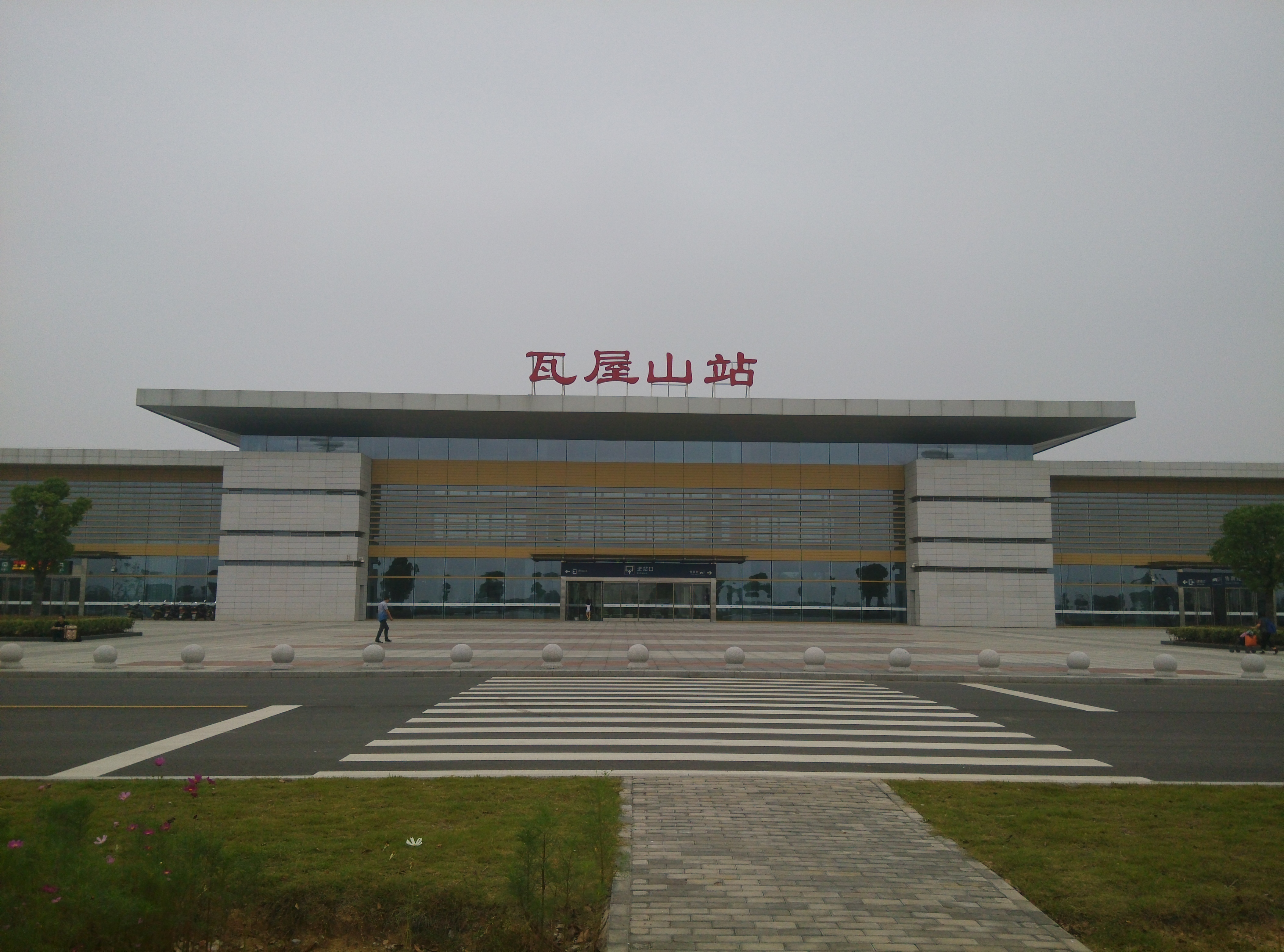 Wawushan Railway Station 2014